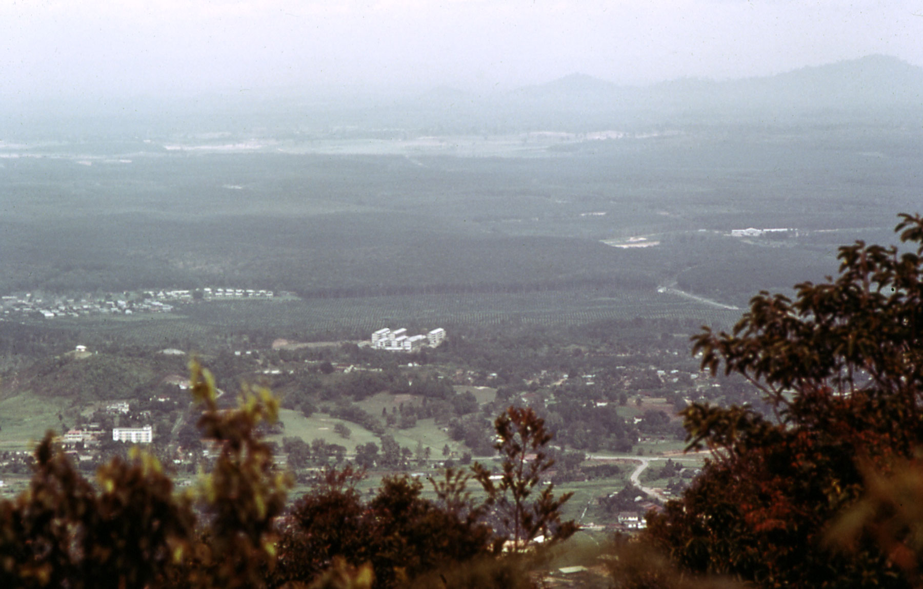 View from Gunung Lambak, near Kluang, Johor, Malaysia, looking west (1975)